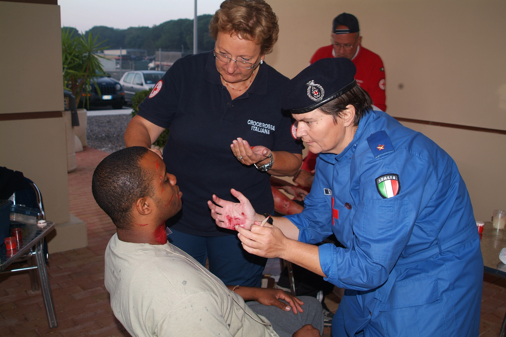 Members of the Italian Red Cross put make-up on a role player prior to Exercise "Tuscan Sun," Oct. 7. Red Cross "make-up men" take specific training classes in order to make wounds look as realistic as possible.